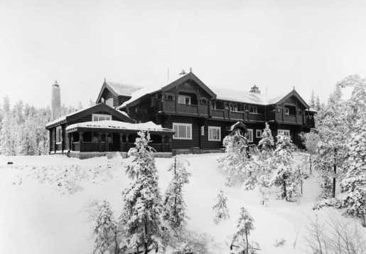 Kongsseteren, a Royal residence in Voksenkollen, Oslo